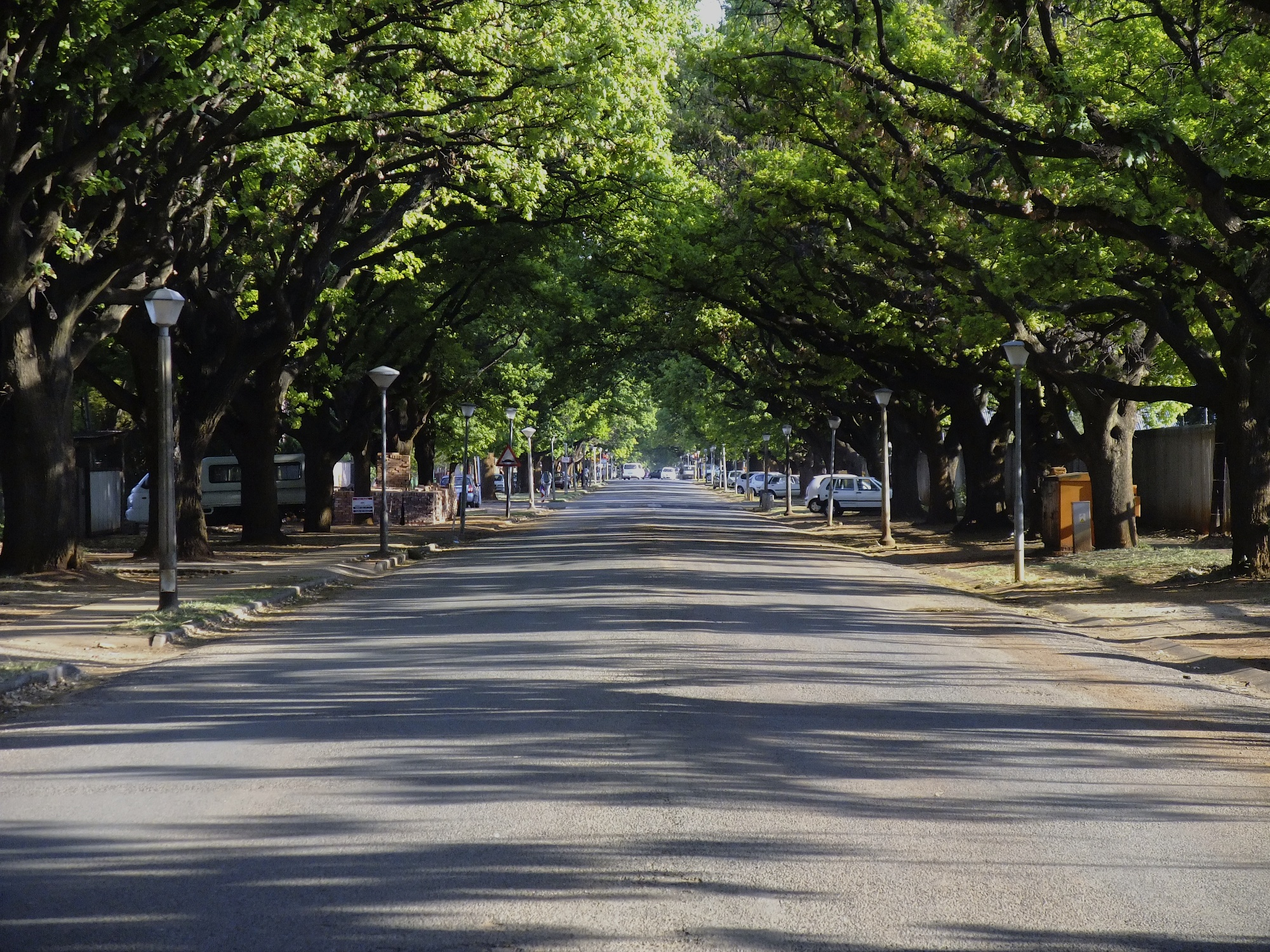 Oak Avenue, Potchefstroom This media shows a South African Protected Site with SAHRA file reference 9/2/256/0014.